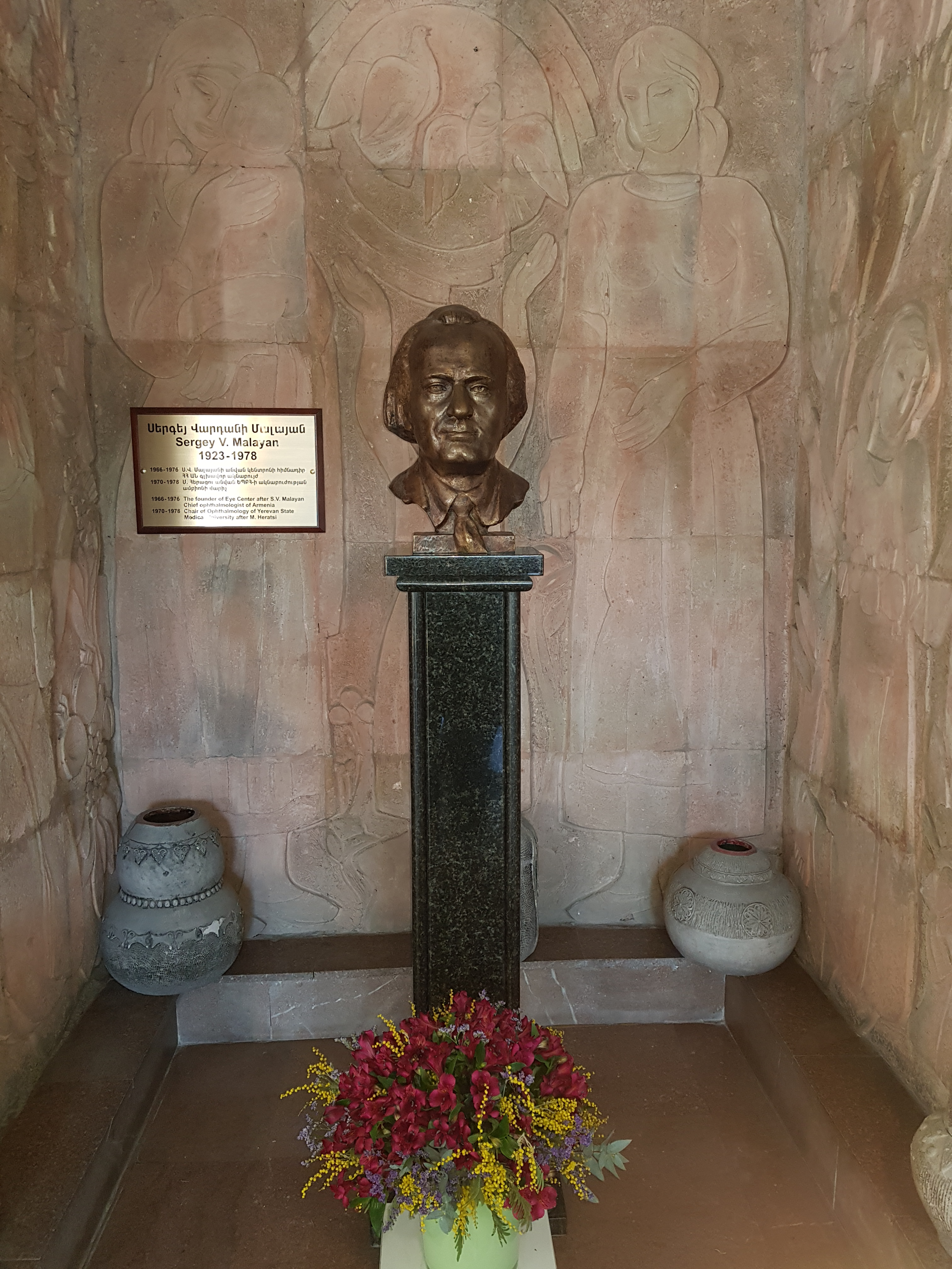 Sergey Malayan's bust in the hall of Ophtalmological Center after S. V. Malayan